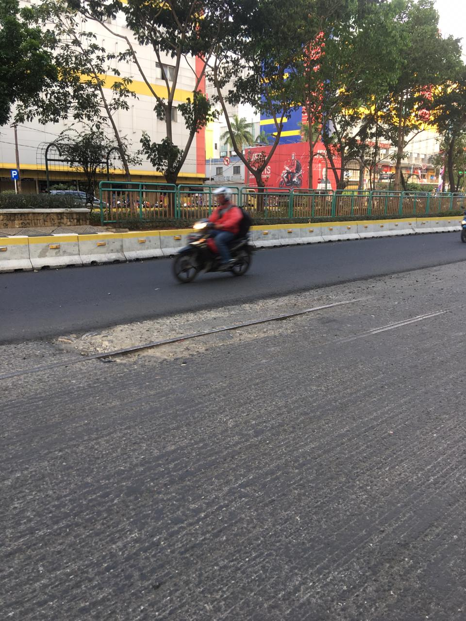 The remains of the former Jakarta tram tracks in Glodok. With a gauge of 1188mm, the tram tracks were used until 16 March 1960 as the Jakartakota - Kramat tram service was withdrawn.